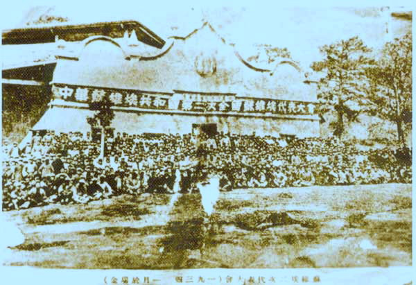 On 1934 the Chinese Soviet second meeeting of delegates